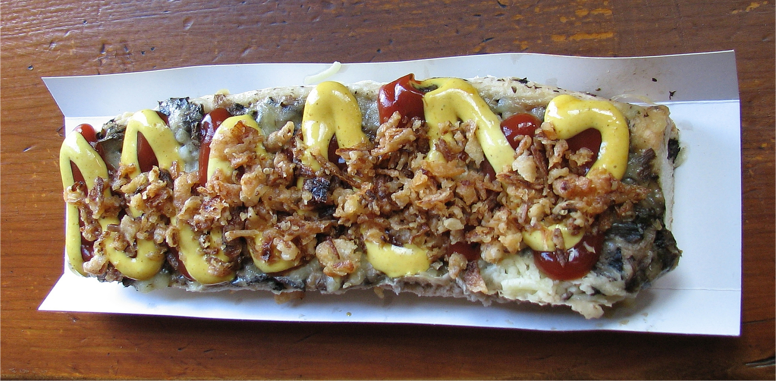 Polish zapiekanka